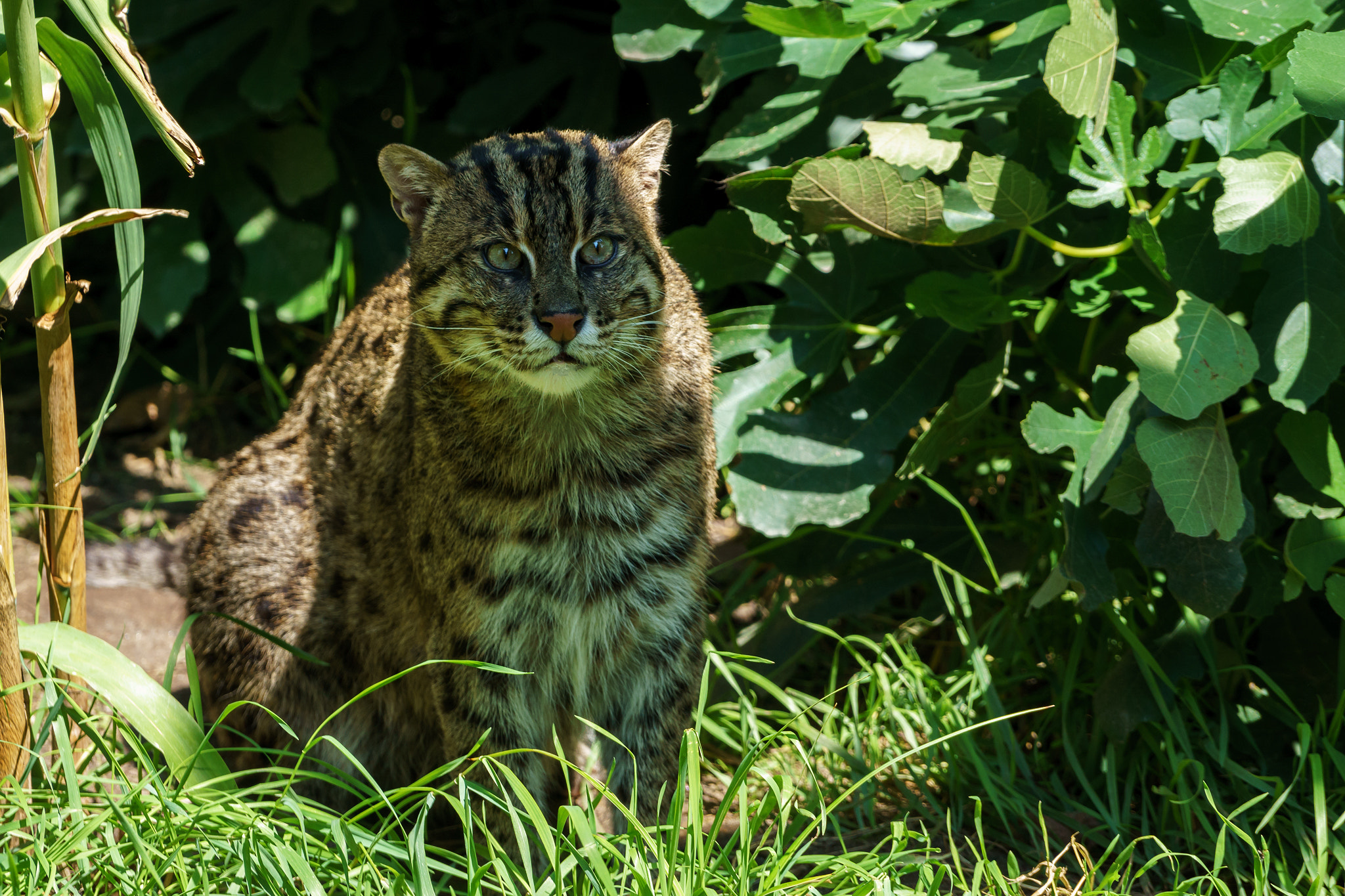 500px provided description: Fishing cat (Prionailurus viverrinus) by Nuremberg in Germany [#portrait ,#beauty ,#color ,#eyes ,#nature ,#travel ,#cat ,#sun ,#light ,#animals ,#summer ,#beautiful ,#animal ,#colors ,#green ,#alpha ,#sony ,#germany ,#zoo ,#wildlife ,#day ,#colorful ,#outdoors ,#horizontal ,#wild ,#color image ,#tele ,#fishing cat ,#6000 ,#fe 70 200 f4]